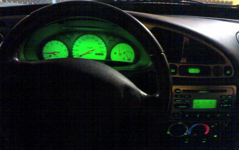 Picture of dashboard and dials of a 1999 Ford Puma 1.7 at night.